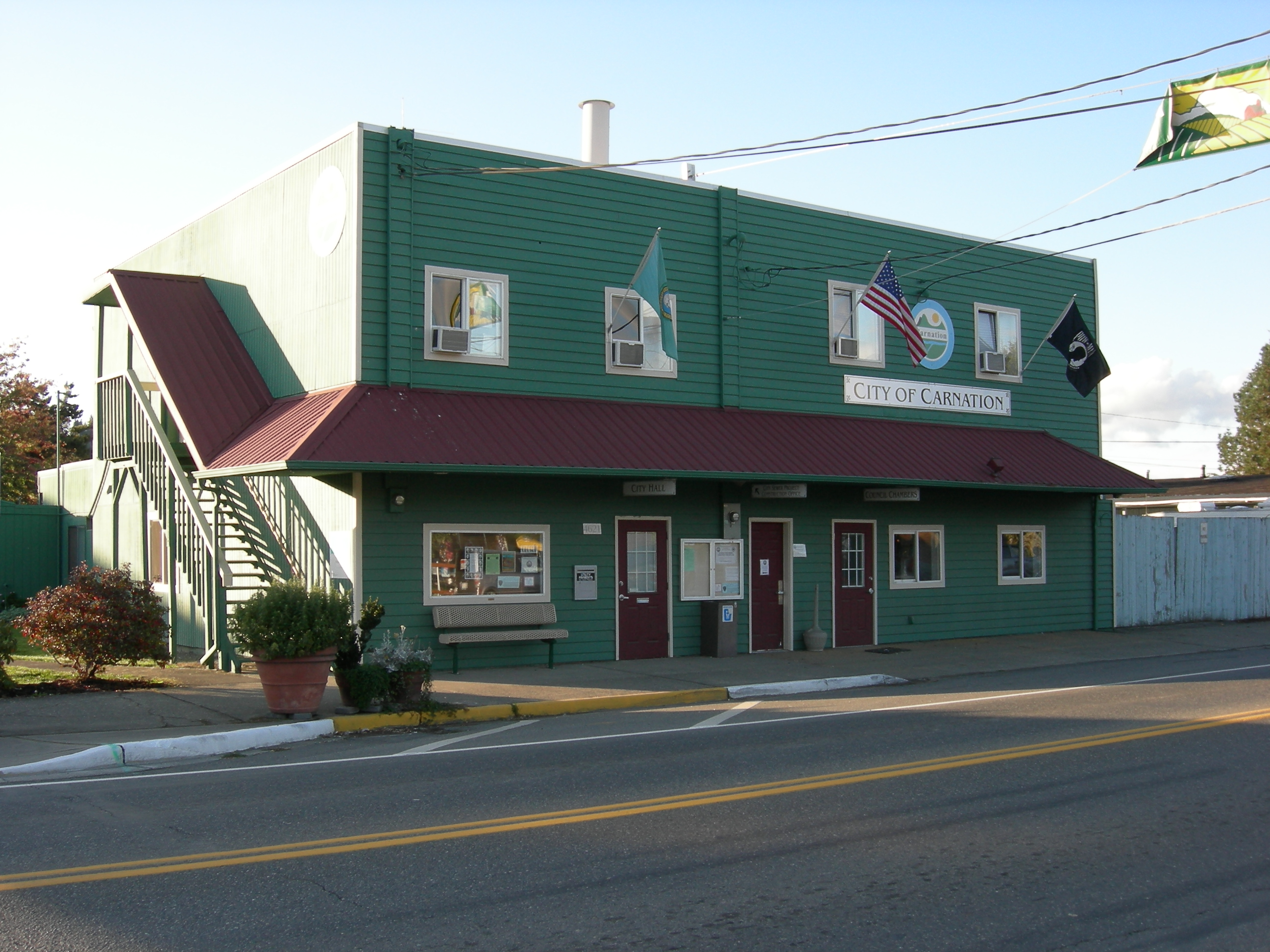 City Hall, Carnation, Washington, USA.